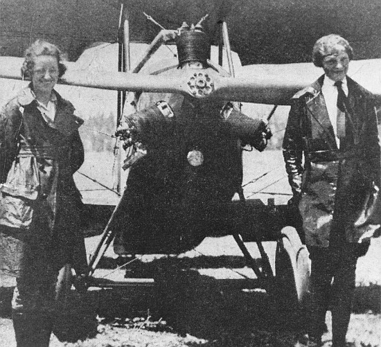 Neta Snook and Amelia Earhart in front of Earhart's Kinner Airster, c.1921. Photo donated by Karsten Smedal and available as a public domain image.